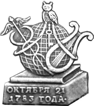 Imperial Russian Academy